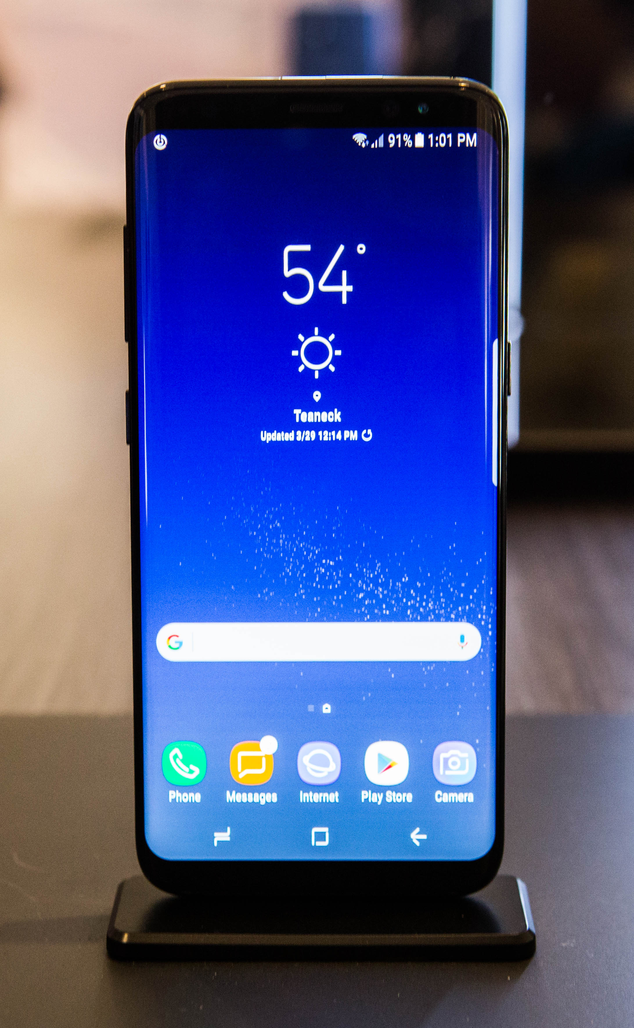 Samsung Unpacked 2017 Galaxy S8 Launch Event